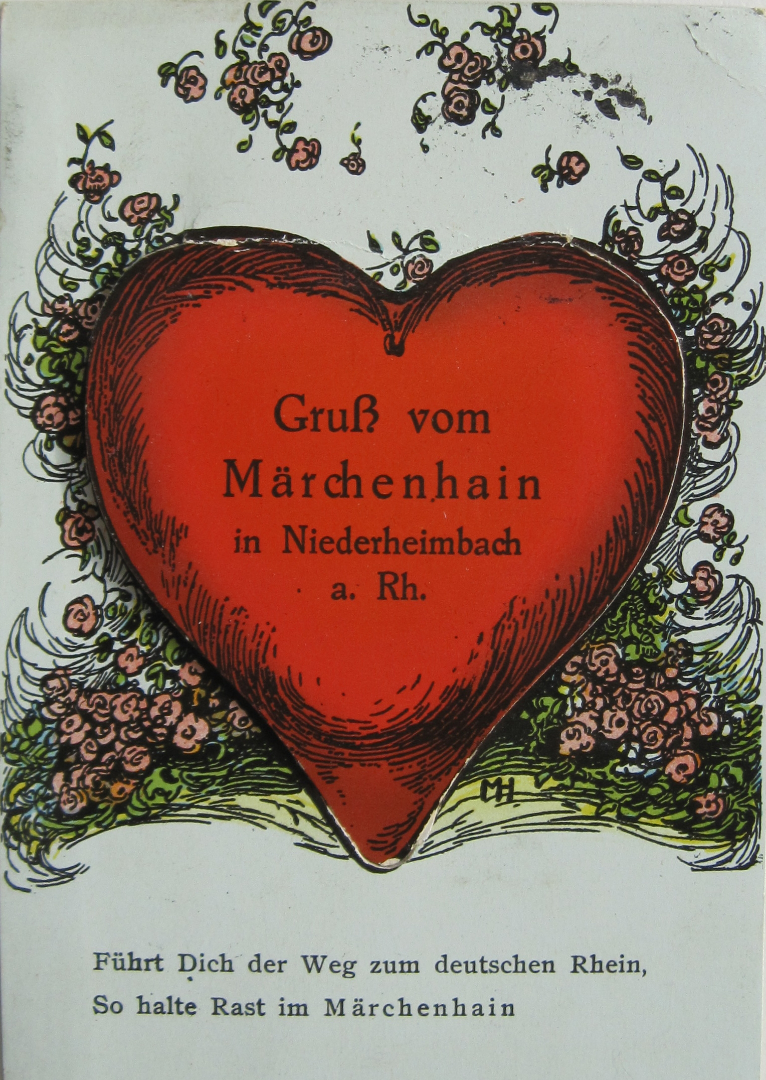 Fanfolded picture postcards "Gruß vom Märchenhain in Niederheimbach" (greetings from the fairy forest). 1930ies